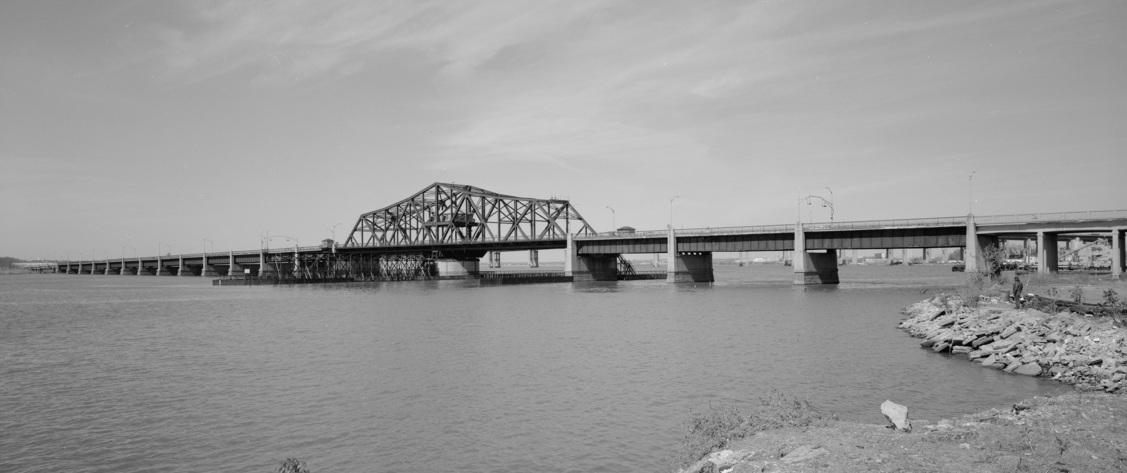 Crop of File:GENERAL VIEW OF BRIDGE, LOOKING SOUTHWEST - Victory Bridge, Spanning Raritan River at New Jersey Route 35, Perth Amboy, Middlesex County, NJ HAER NJ,12-PERAM,5-4.tif